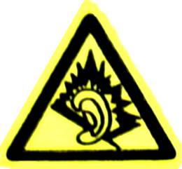 Symbol for danger of NIHL (Noise-Induced Hearing Loss)